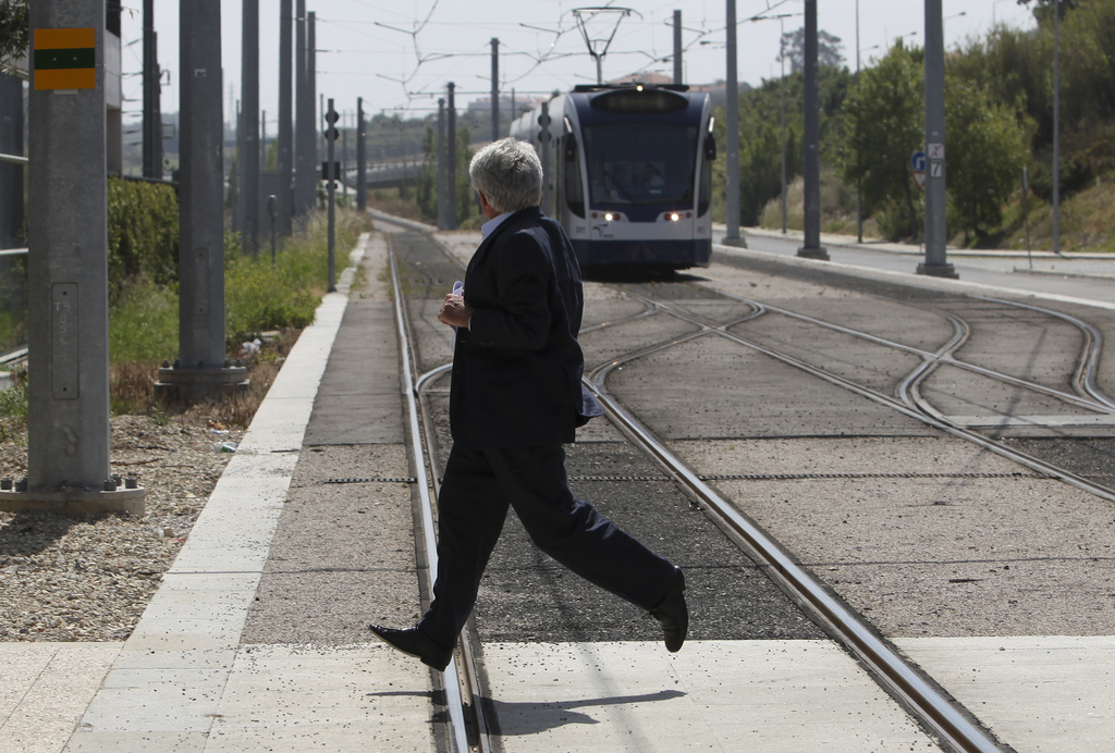 Siemens Combino Plus tram in Almada, Portugal. Built 2007, Metro Transportes do Sul (MTS) operator.